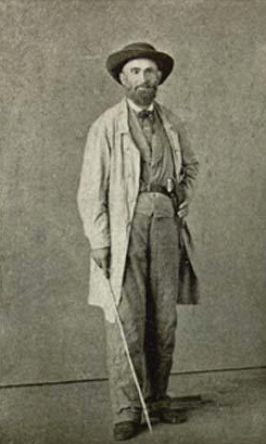 original caption: "General Jubal A. Early, disguised as a farmer, while escaping to Mexico, 1865." From: Lieutenant General Jubal Anderson Early C.S.A., Autobiographical Sketch and Narrative of the War between the States. Philadelphia; London: J. B. Lippincott Company, 1912. Immediate source: Documenting the American South (DocSouth) digital publishing initiative